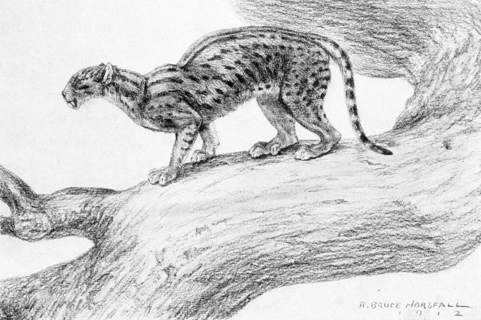 Life restoration of Dinictis felina from W.B. Scott's A History of Land Mammals in the Western Hemisphere. New York: The Macmillan Company.